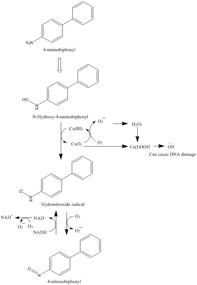 Possible mechanism for formation of reactive oxygen species during 4-aminobiphenyl metabolism leading to DNA damage